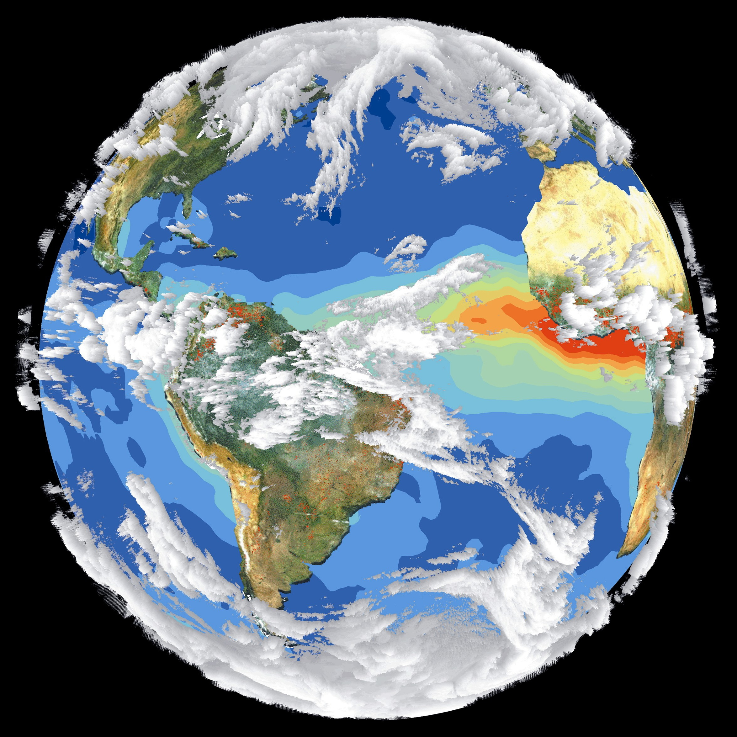 Satellite data and images such as those presented in this image of Earth give scientists a more comprehensive view of the Earth's interrelated systems and climate. Four different satellites contributed to the making of this image. Sea-viewing Wide Field-of-view Sensor (SeaWiFS) provided the land image layer and is a true color composite of land vegetation for cloud-free conditions from September 18 to October 3, 1997. Each red dot over South America and Africa represents a fire detected by the Advanced Very High Resolution Radiometer. The oceanic aerosol layer is based on National Oceanic and Atmospheric Administration (NOAA) data and is caused by biomass burning and windblown dust over Africa. The cloud layer is a composite of infrared images from four geostationary weather satellites?NOAA's GOES 8 and 9, the European Space Agency's METEOSAT, and Japan's GMS 5.